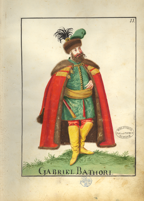 From Trachten-Kabinett von Siebenbürgen album. Drawn in 1729, based on the 1692 watercolours of an artist from Graz Given to the Romanian Academy by Baron Ludovic Czekelius of Rosenfeld. Gabriel Bathori